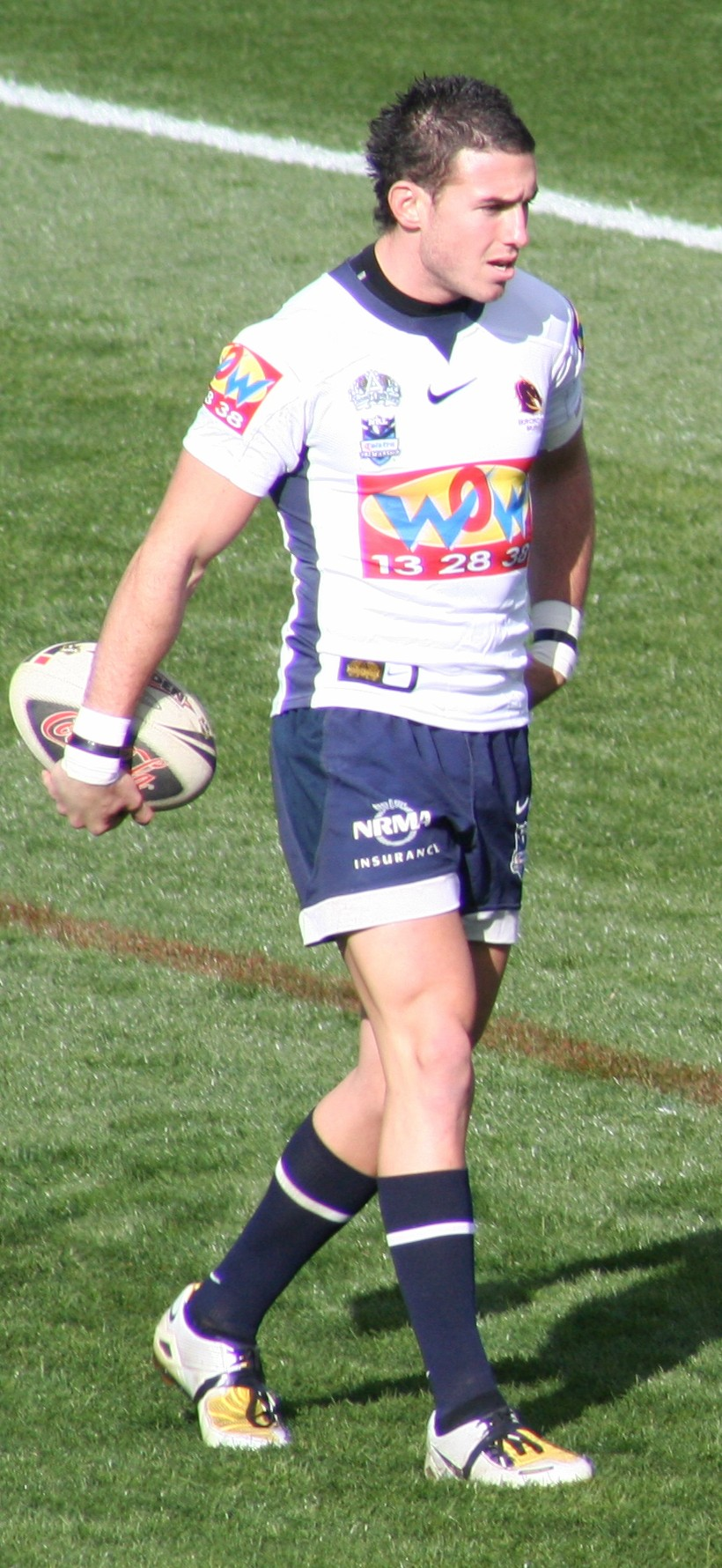 Brisbane Broncos Vs Canberra Raiders 15 June 2008 at Bruce Stadium Canberra. Darius Boyd with Kaine Manihera and Karmichael Hunt.